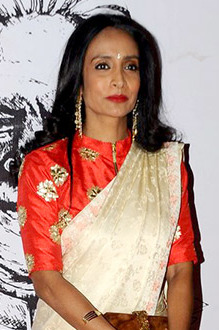 Suchitra Pillai graces the ‘Khidkiyaan’ movie festival launch